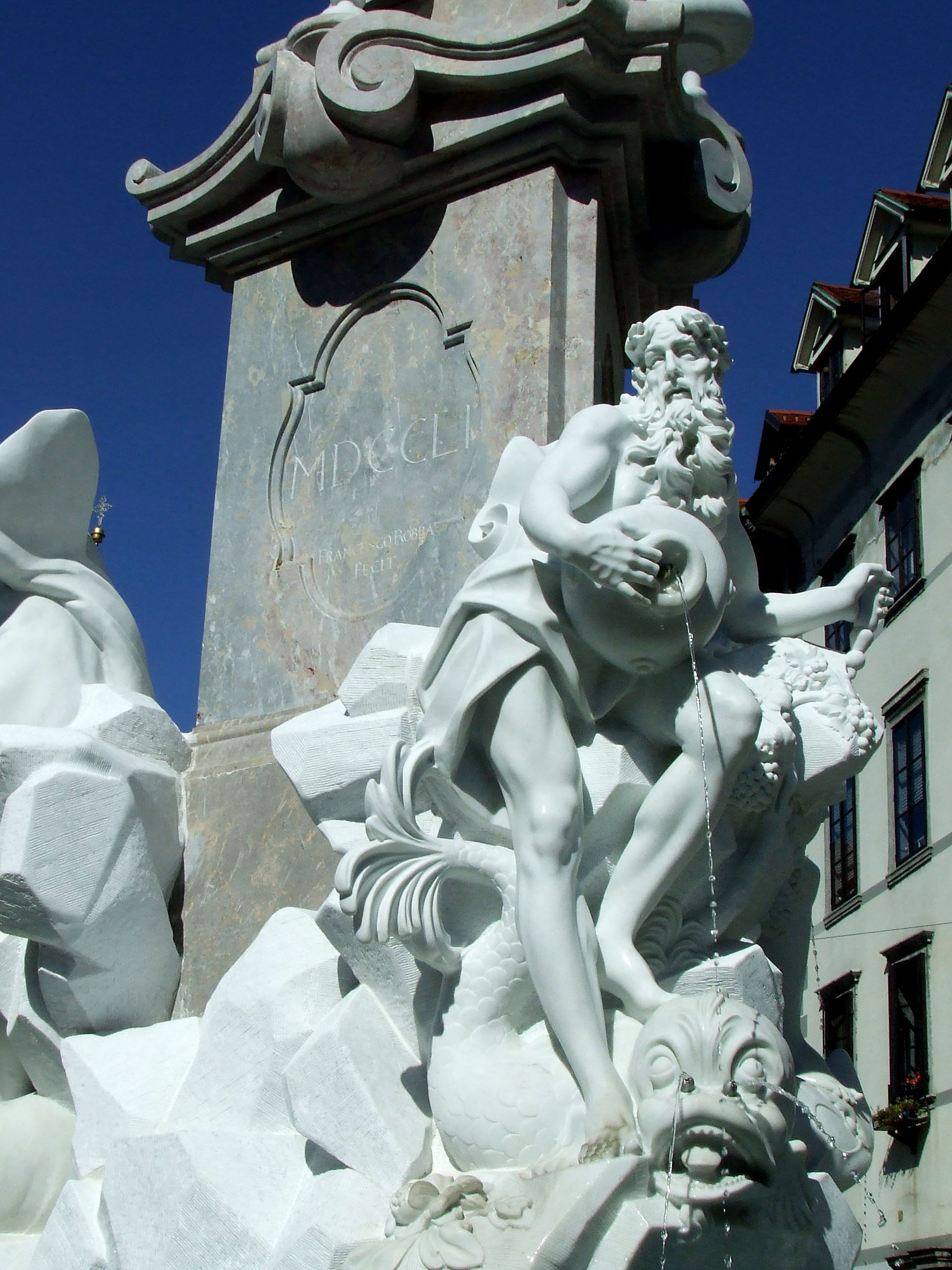 Detajl kopije Robbovega vodnjaka v Ljubljani poleg Mestne hiše. Detail of a Copy of the Fountain of the three Carniolan rivers, original (now in National Gallery, Ljubljana) made by Slovenian baroque artist Francesco Robba in 1751